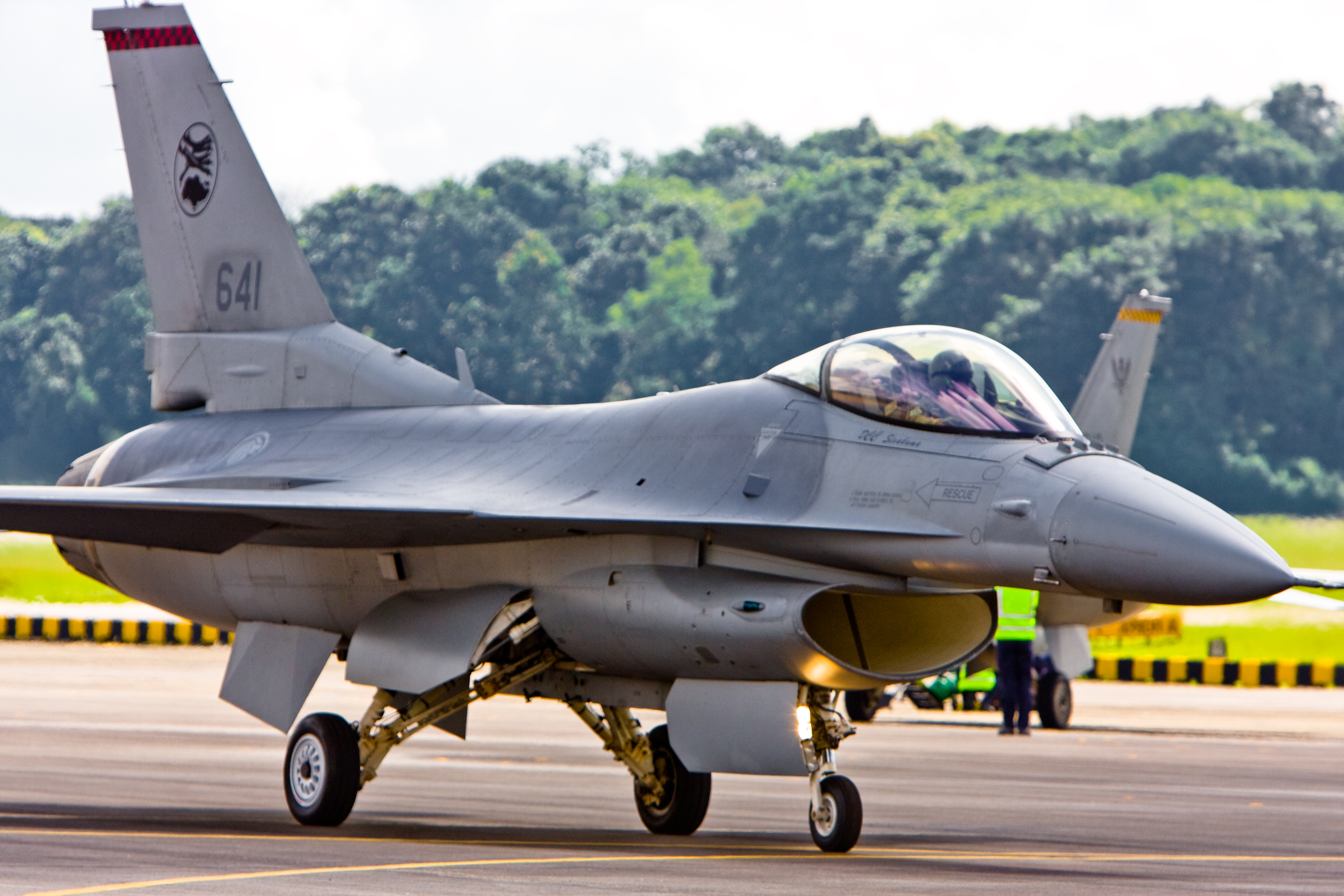 RSAF F-16 in alert fighter taxi-ing